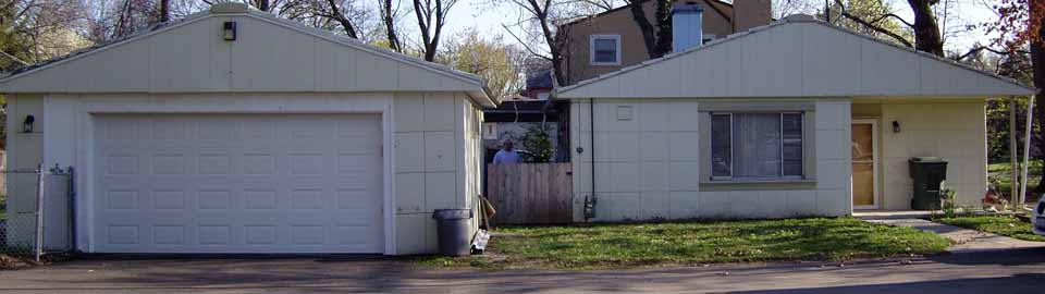 Lustron home with 2-car Lustron Garage (G-2 model). The home and garage have both been painted.